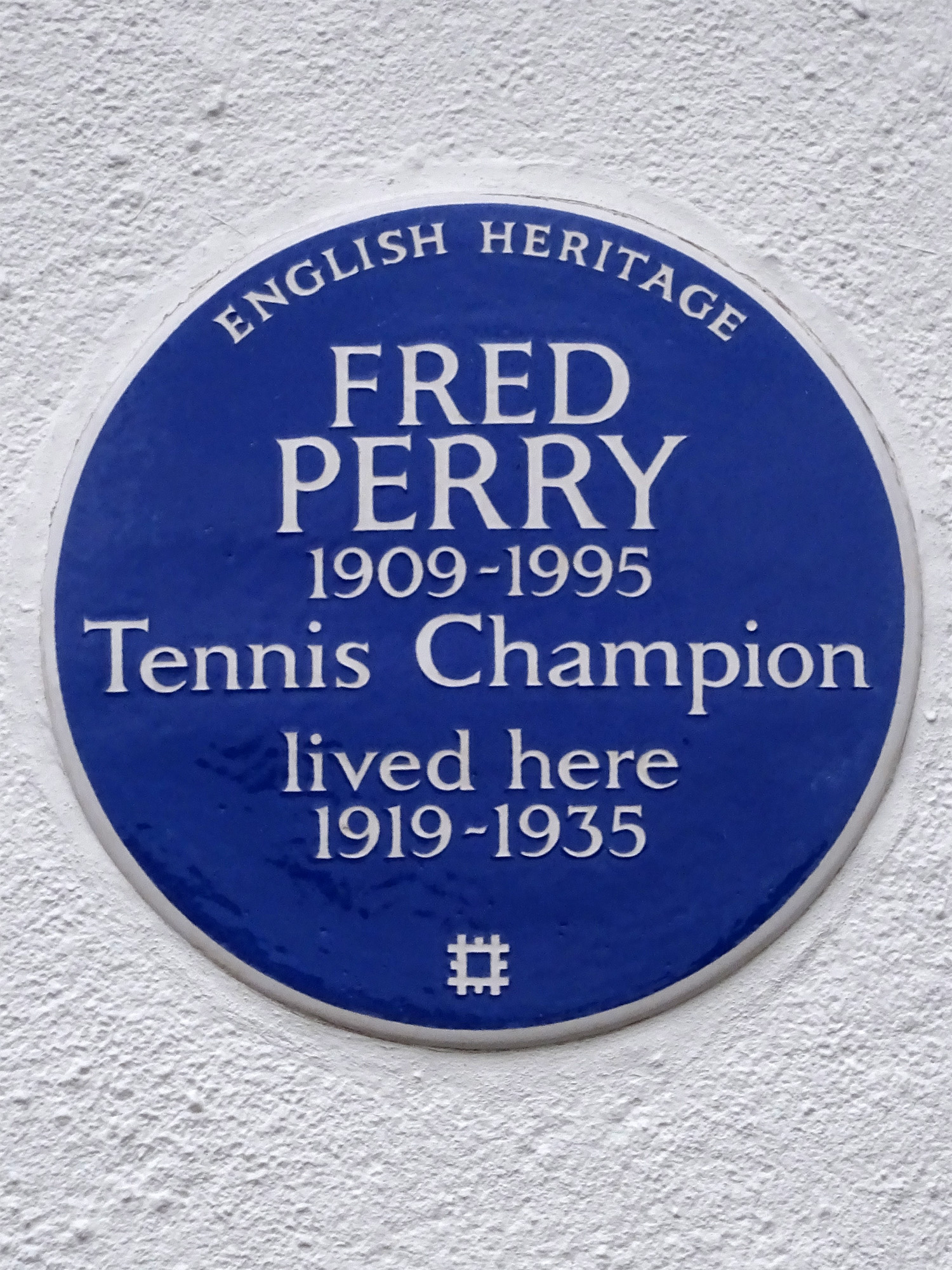 FRED PERRY 1909-1995 Tennis Champion lived here 1919-1935